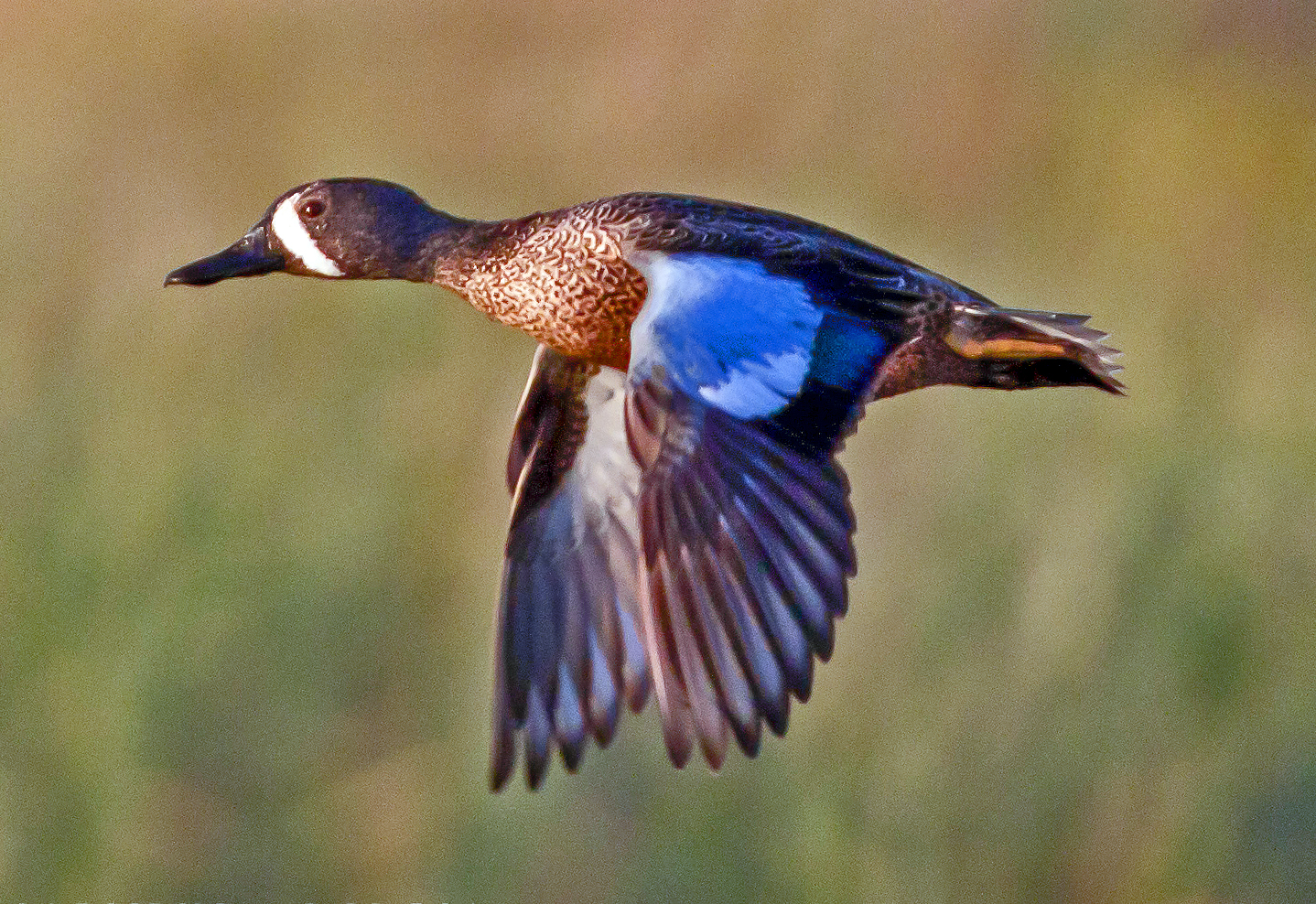 Blue-winged Teal in Brazoria National Wildlife Refuge, Texas